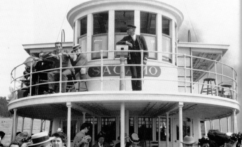 Photograph of the pilothouse of the SS Sagamo circa 1907 with Commodore Bailey, the first skipper of the steamer.